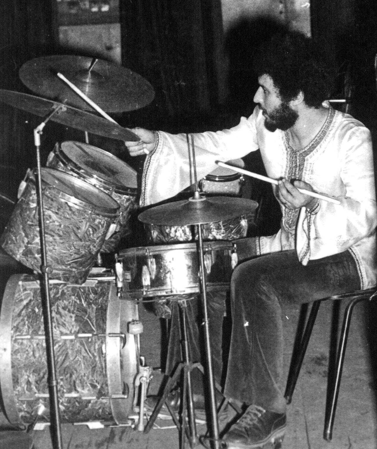 With Phoenix in roumanian tour 1973